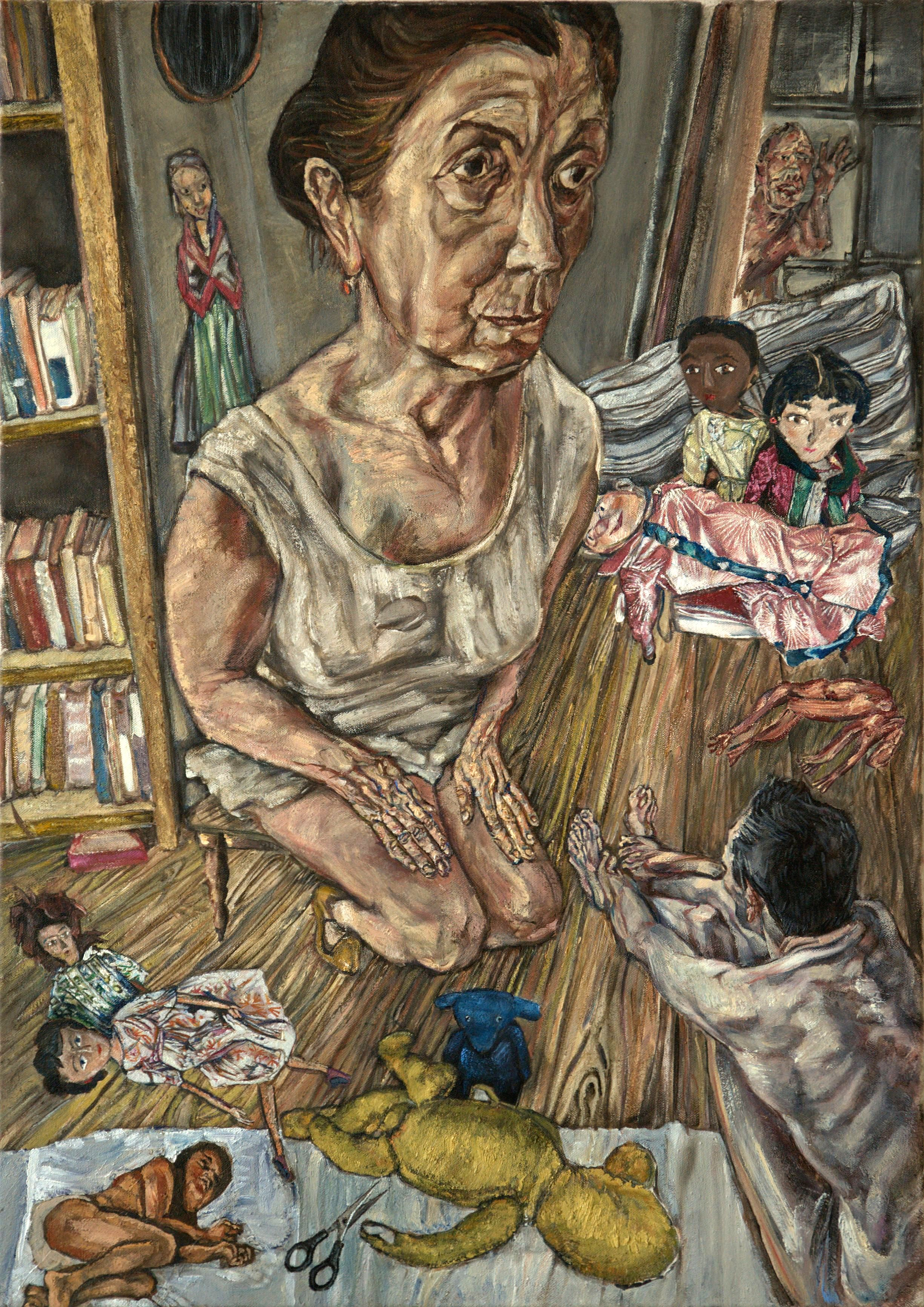 2013 Painting by Erwin Pfrang Erwin Pfrang